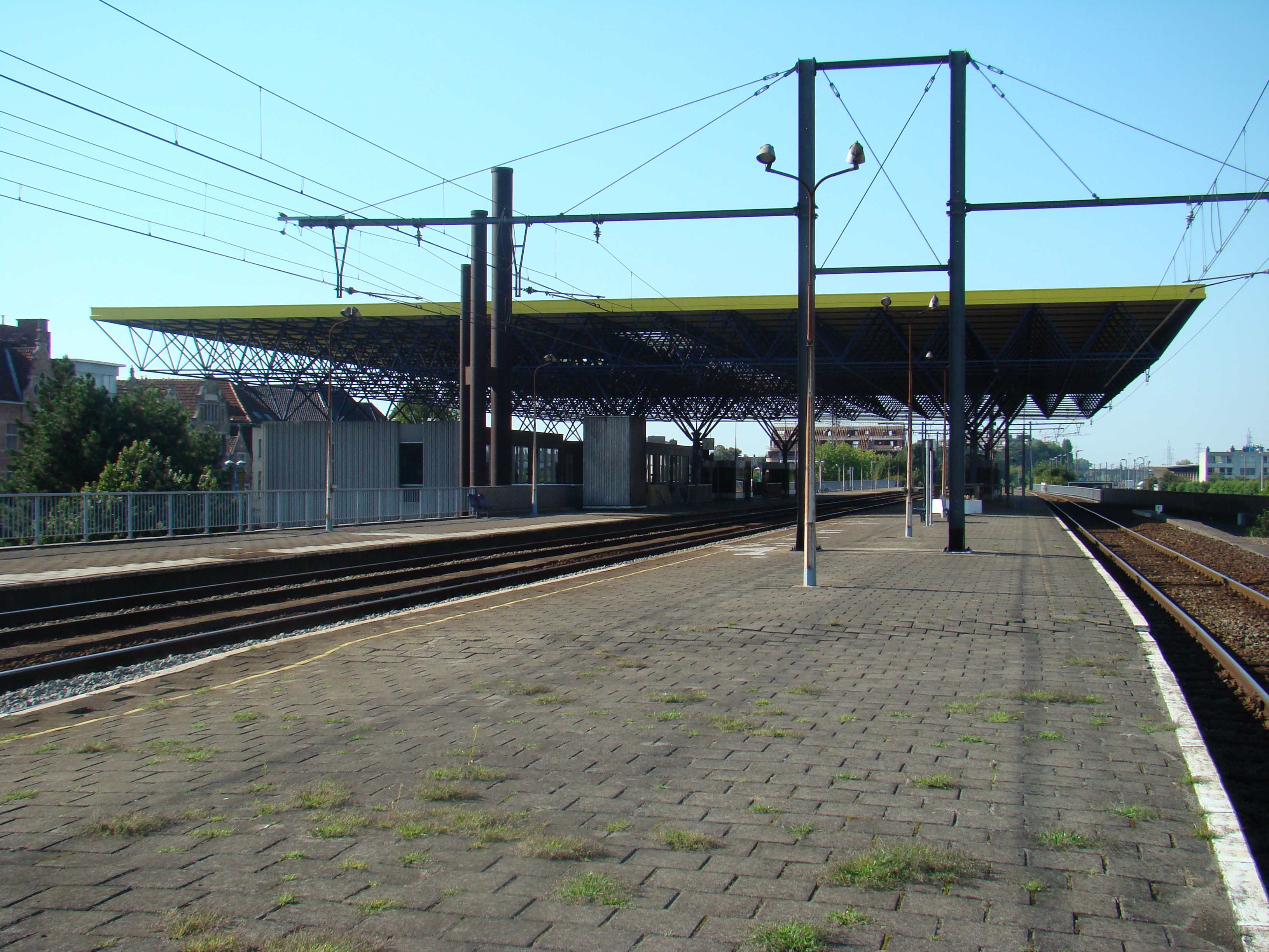 Roeselare (West Flanders, Belgium)